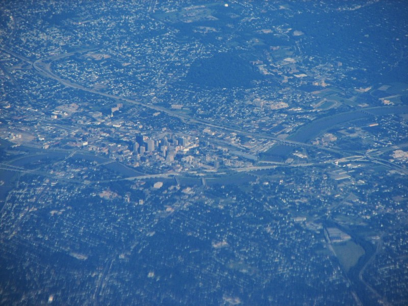 The photograph were taken by Yunus Üstünol.